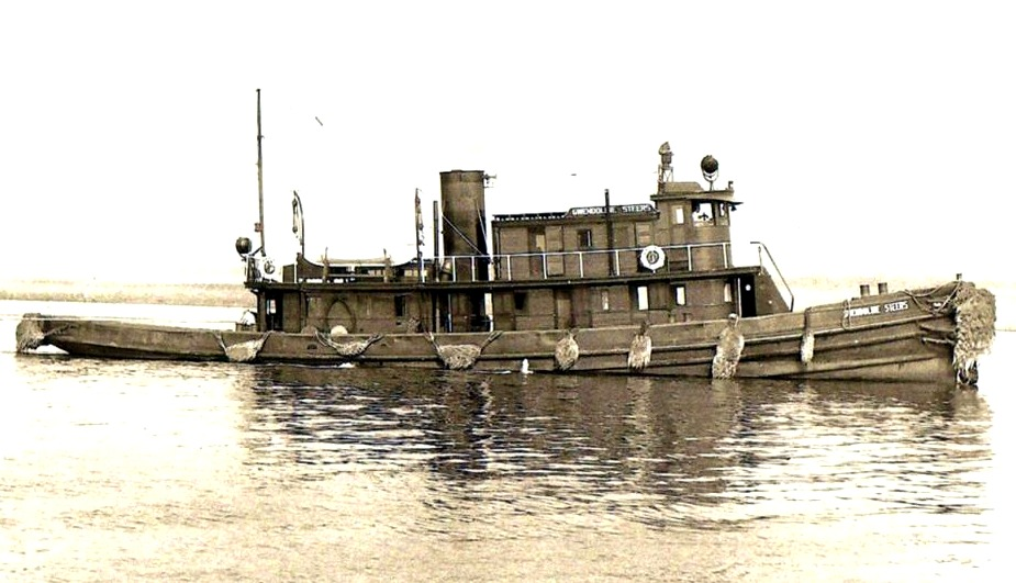 Old Postcard of (G. Steers, formerly US Navy's "Triton" built in 1888)